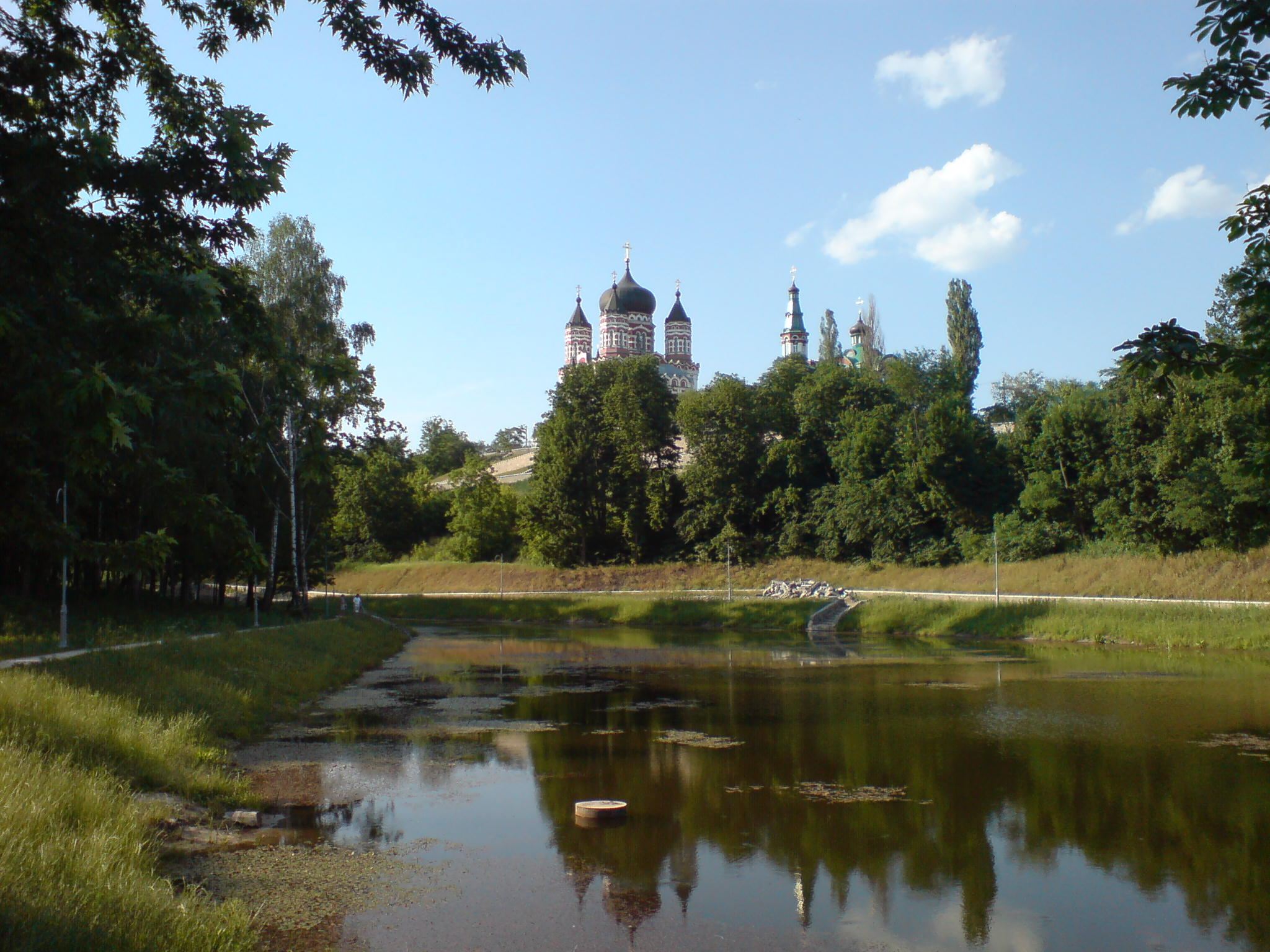 Feofania: a park and monastery in Kiev